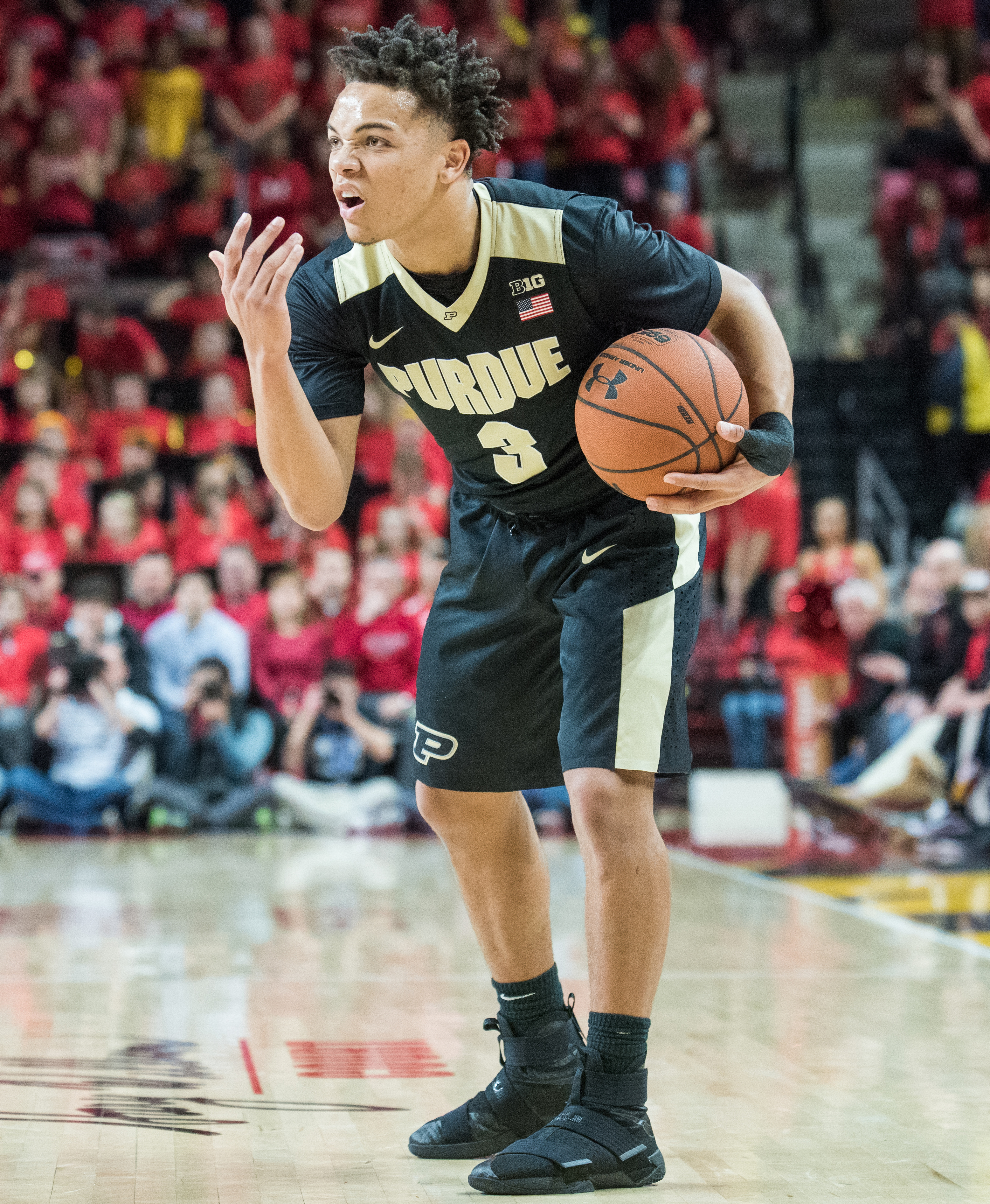 Purdue's Carsen Edwards playing against Maryland